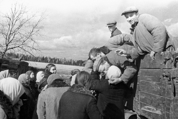 “Draftees before going to the front”. Soviet draftees before going to the front near the city of Nikolayev. The southern front.Ukraine.